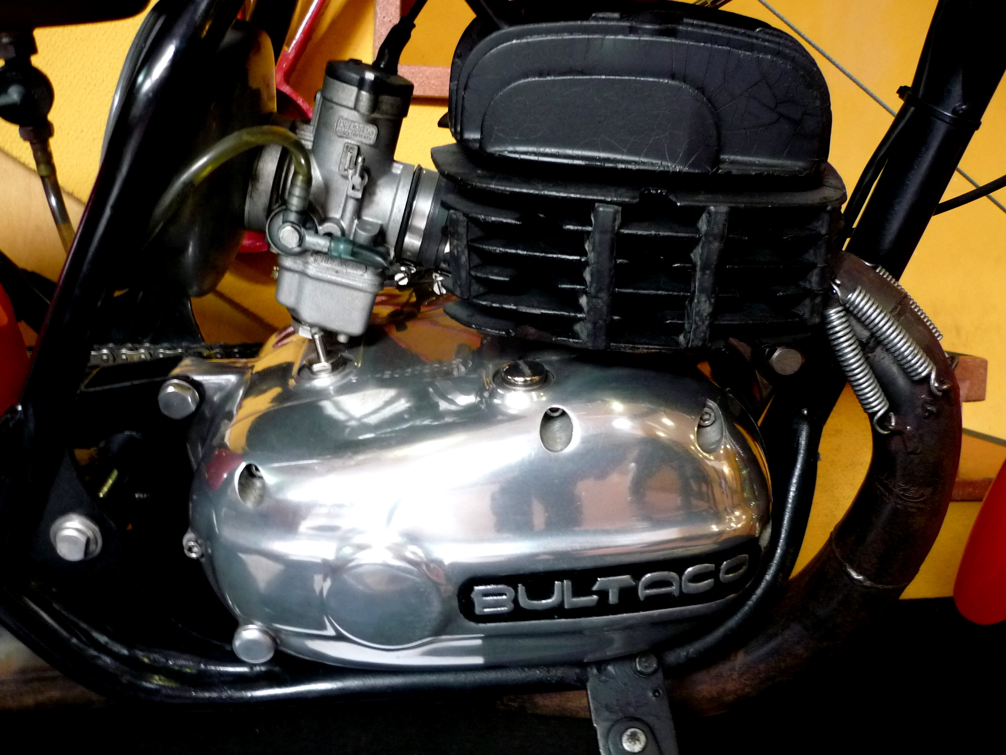 Bultaco engine view, perhaps a Metralla 250cc about 1967 - 1974